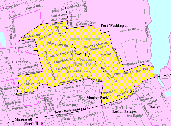 U.S. Census 2000 reference map for Flower Hill, New York